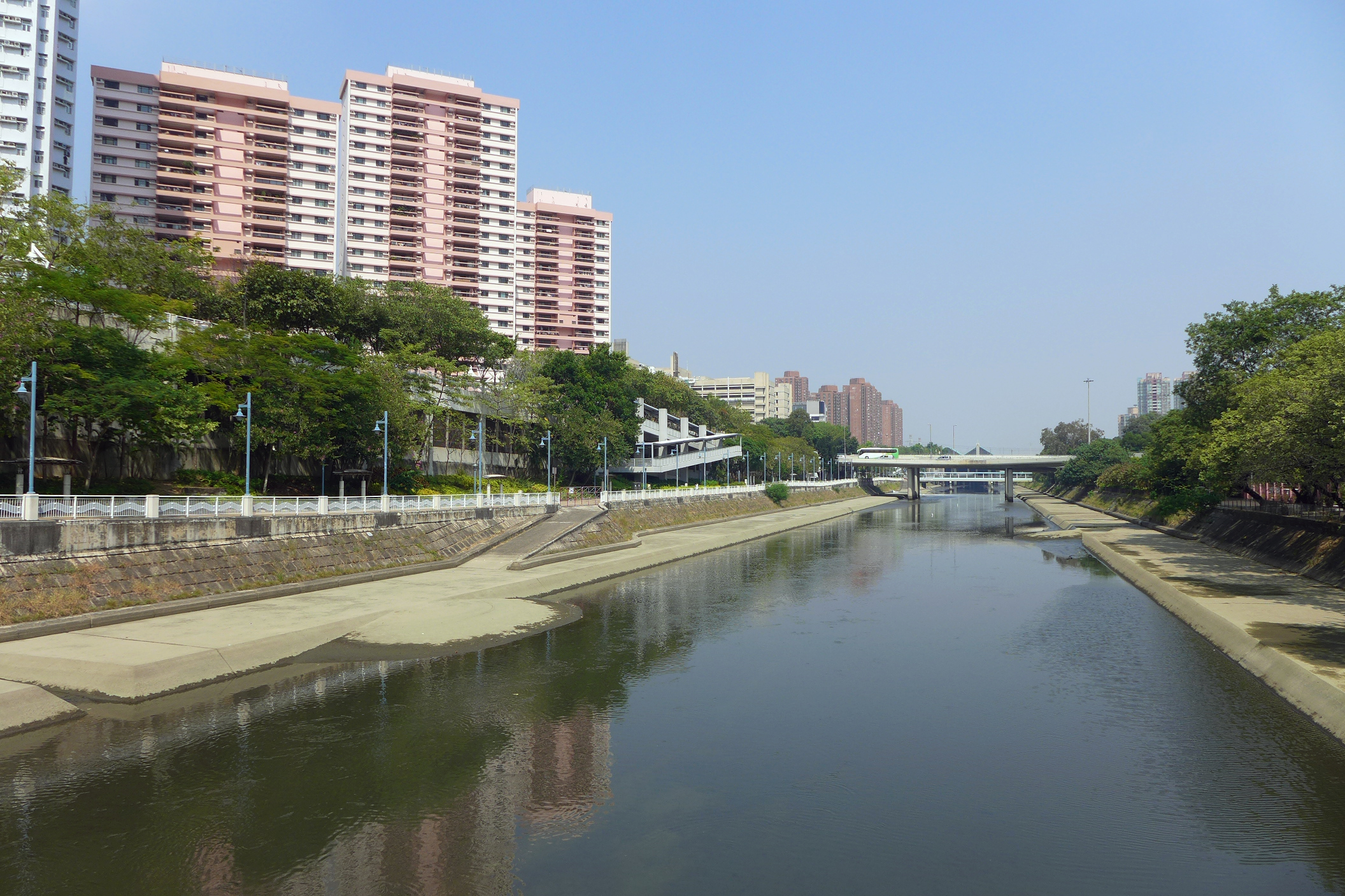 Tuen Mun River Near Red Bridge